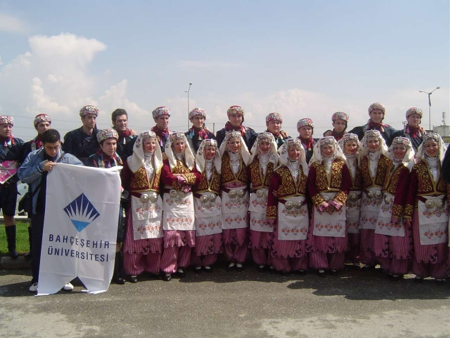 Buhot